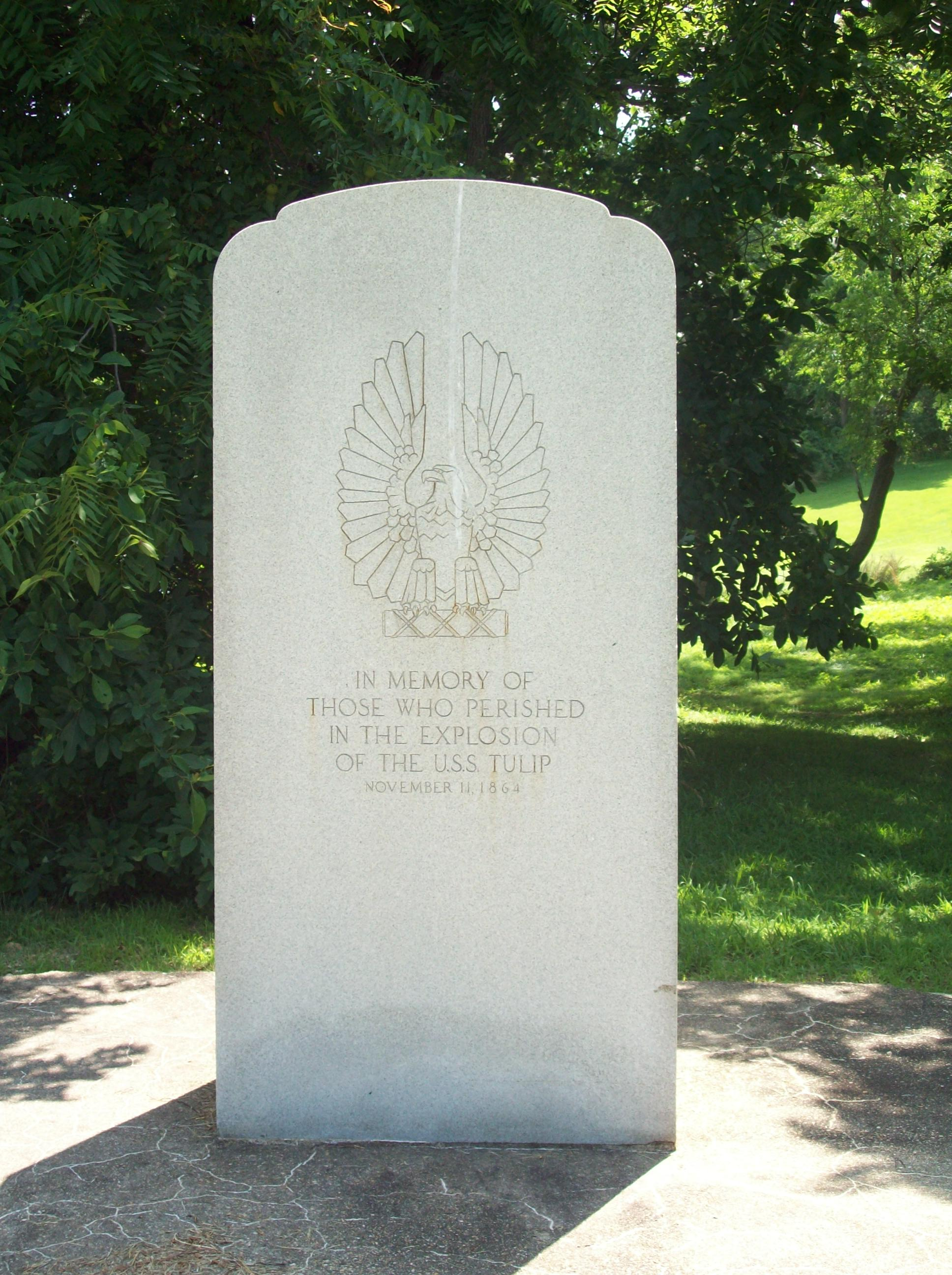 USS Tulip Memorial, St. Inigoes, Maryland, July 2009